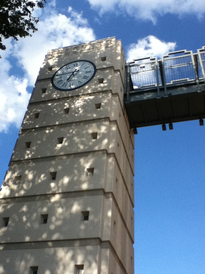 The clock tower of the Garfield County Courthouse in Enid, Oklahoma.